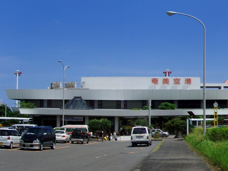 Amami Airport in Wano, Kasari-cho, Amami, Kagoshima Prefecture, Japan. Composite panoramic photo.